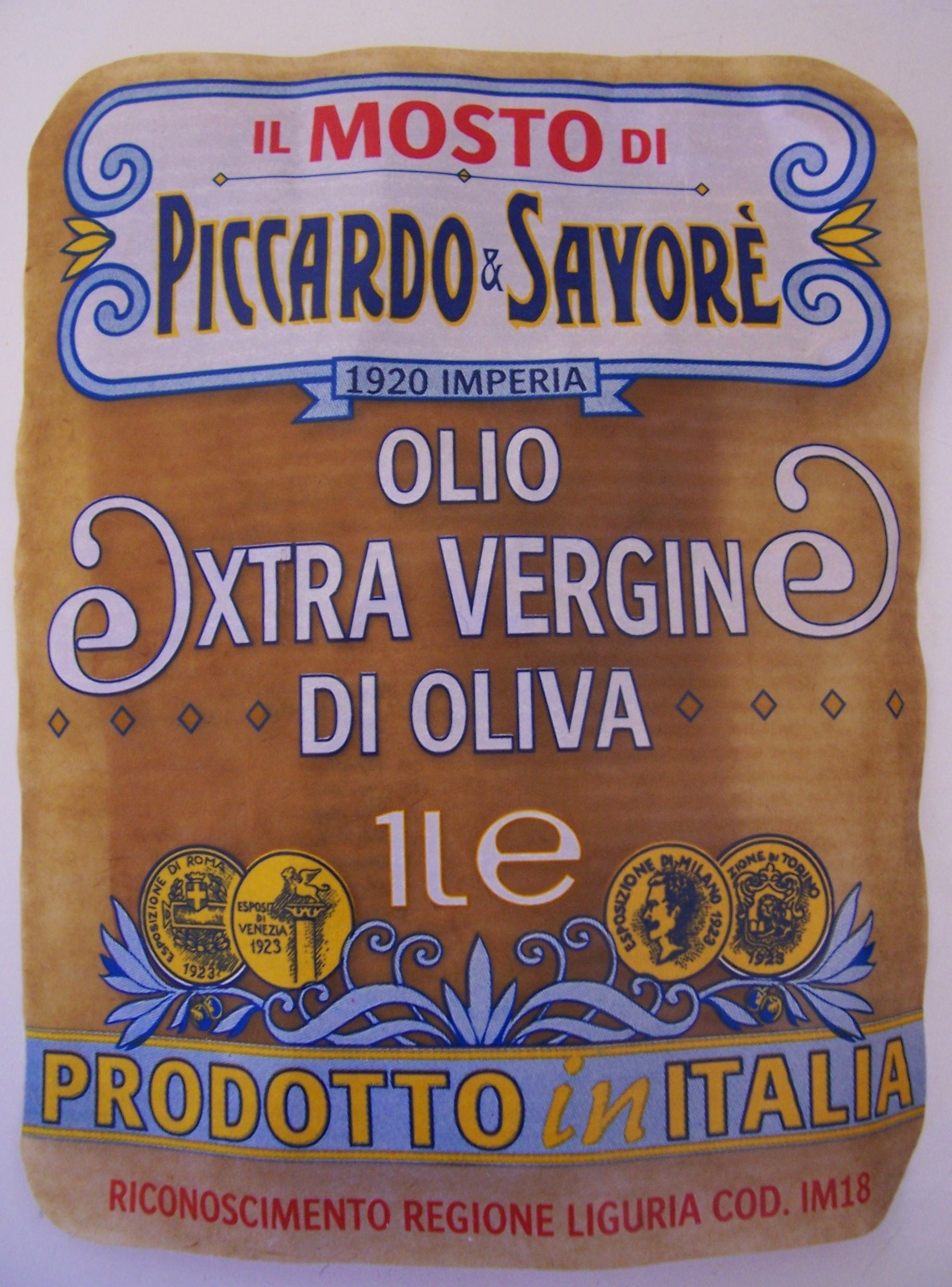 virgin oil of aceitunas (IMPERIA)